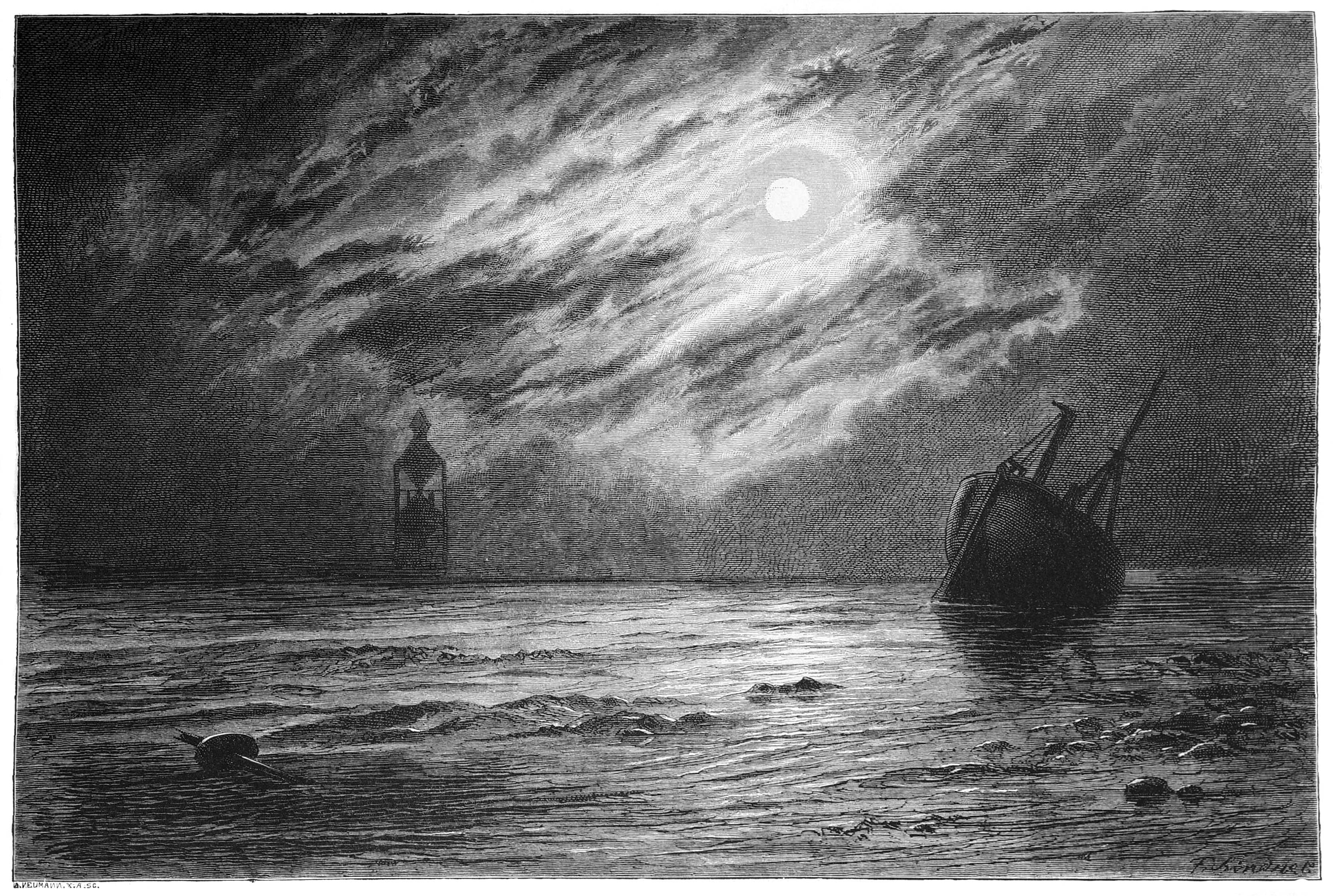 caption: "Das Watt bei Schaarhörn.Originalzeichnung von Ferdinand Lindner (1842–1906) DescriptionGerman painter, illustrator, landscape painter and authorDate of birth/death 15 June 1842 6 May 1906Location of birth/death Dresden CharlottenburgAuthority control : Q1405561 VIAF: 96009178 ULAN: 500049209 GND: 1068224738 RKD: 225836 creator QS:P170,Q1405561 ."